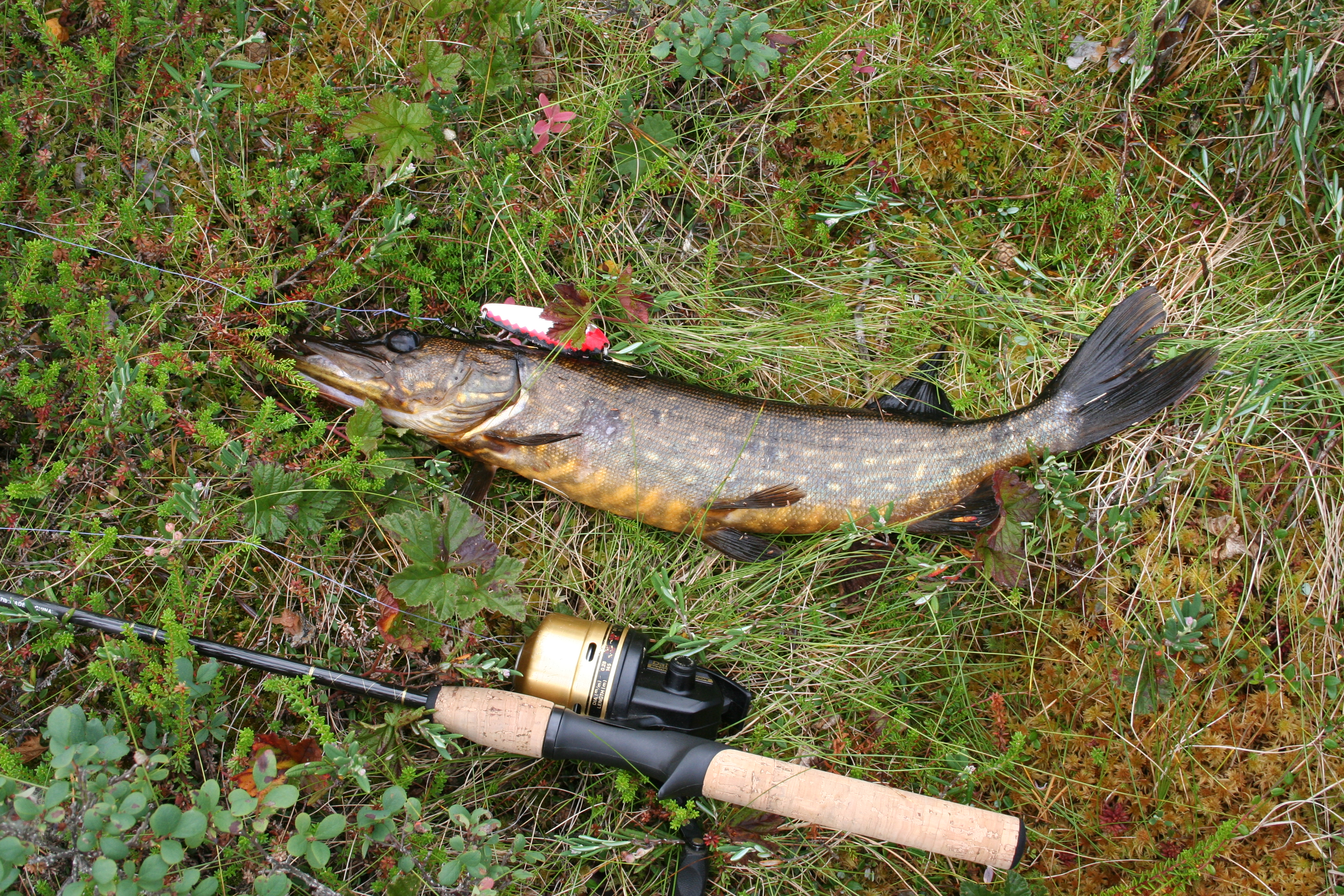 Pike (Esox lucius) is one of the most typical fishes to catch in Finland.